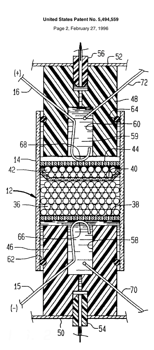 Drawing of the Patterson Power Cell, from U.S. Patent Number 5,494,559, page 2, February 27, 1996.